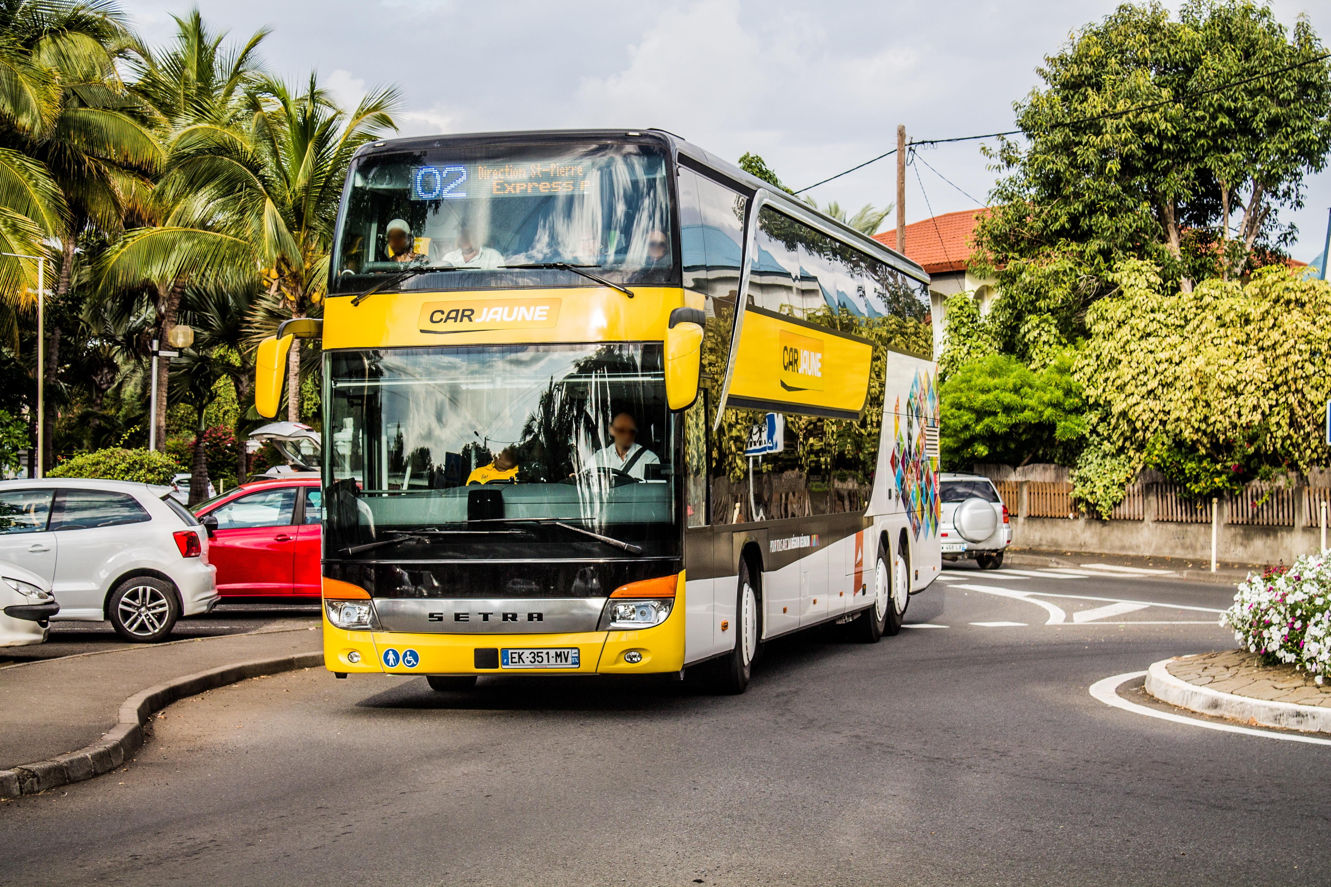 Setra S 431DT Car Jaune